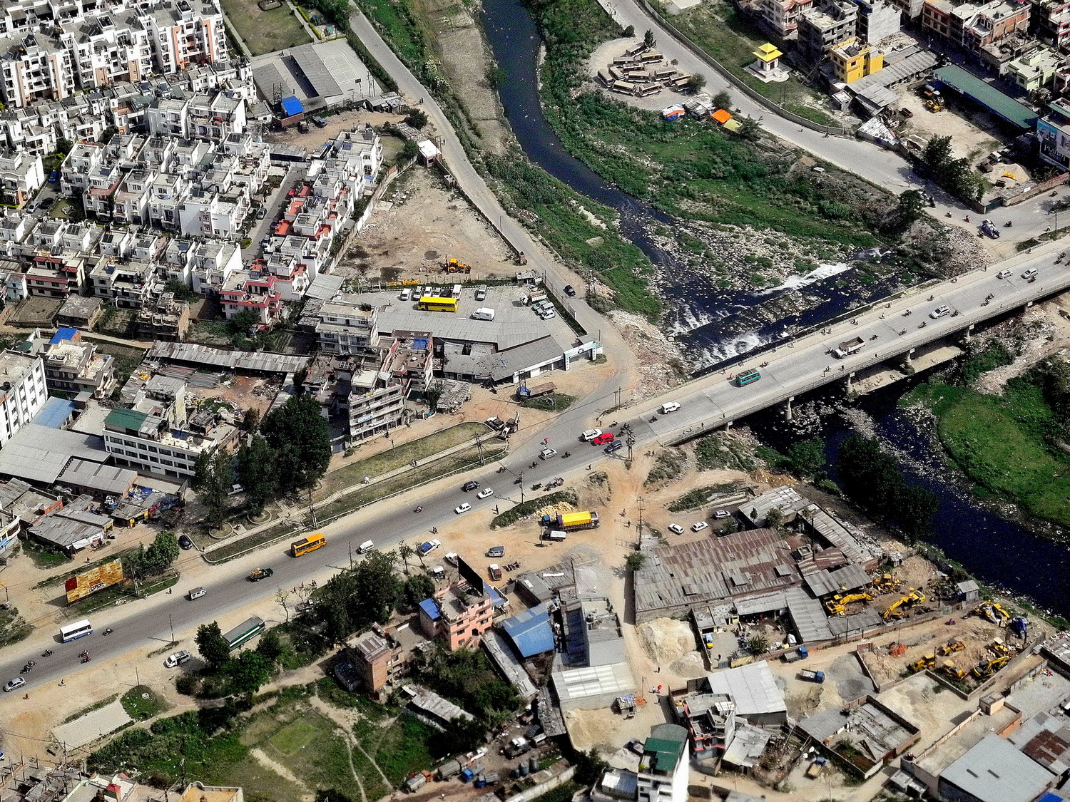 Aerial view of Ring Road crossing the Manohara river, south of Tribhuvan International Airport